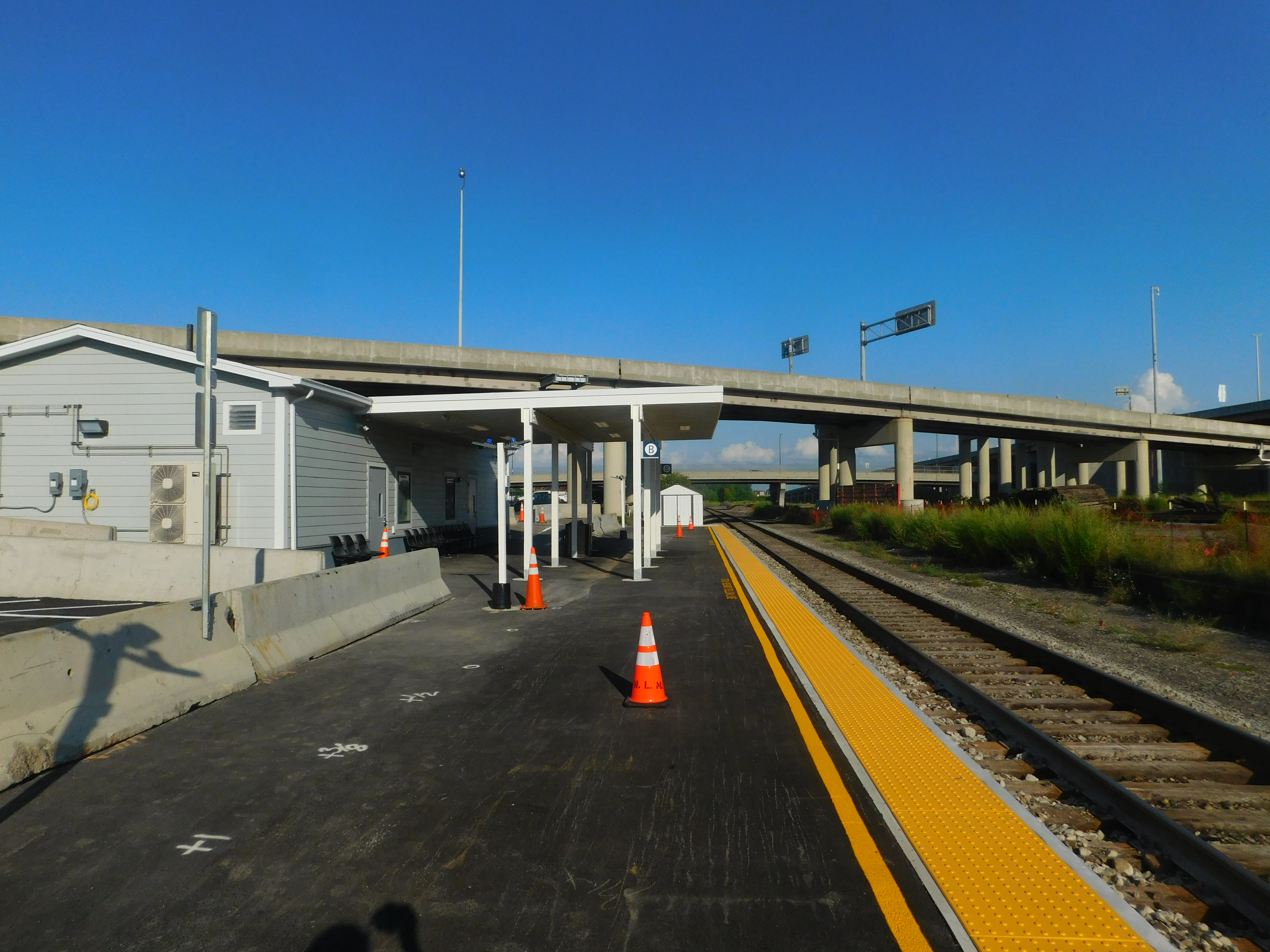 Buffalo–Exchange Street station of Amtrak in August 2019.